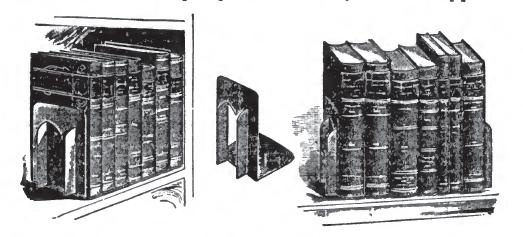 Illustration in A Library Primer